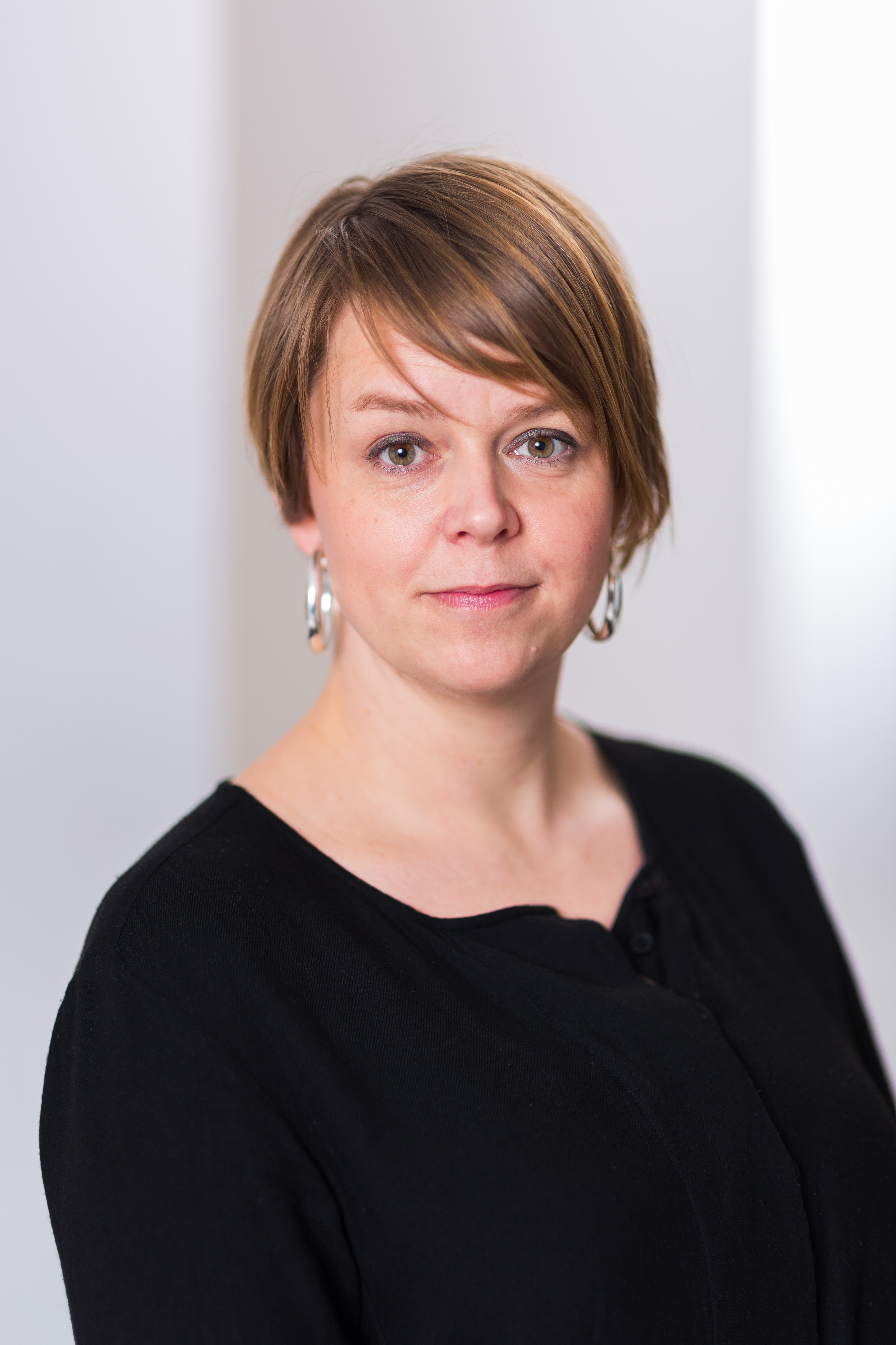 Portrait of Katrin Stjernfeldt Jammeh.